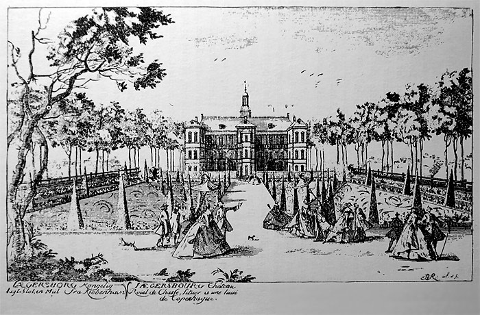 Jaegersborg Palace (Jægersborg Slot) outside Copenhagen.